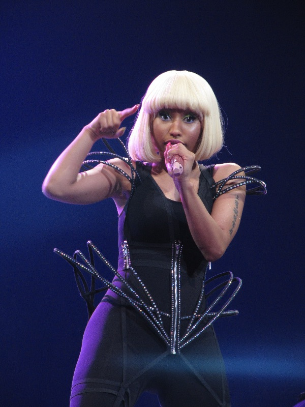 Nicki Minaj live on Femme Fatale Tour in 2011.